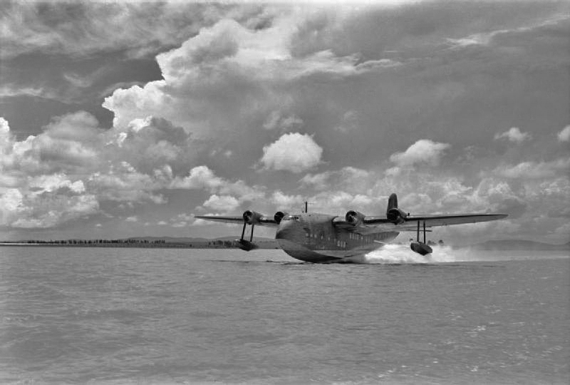 Short S.30 Empire (G-AFKZ), BOAC, Vaal Dam, South Africa, c. 1941/1943